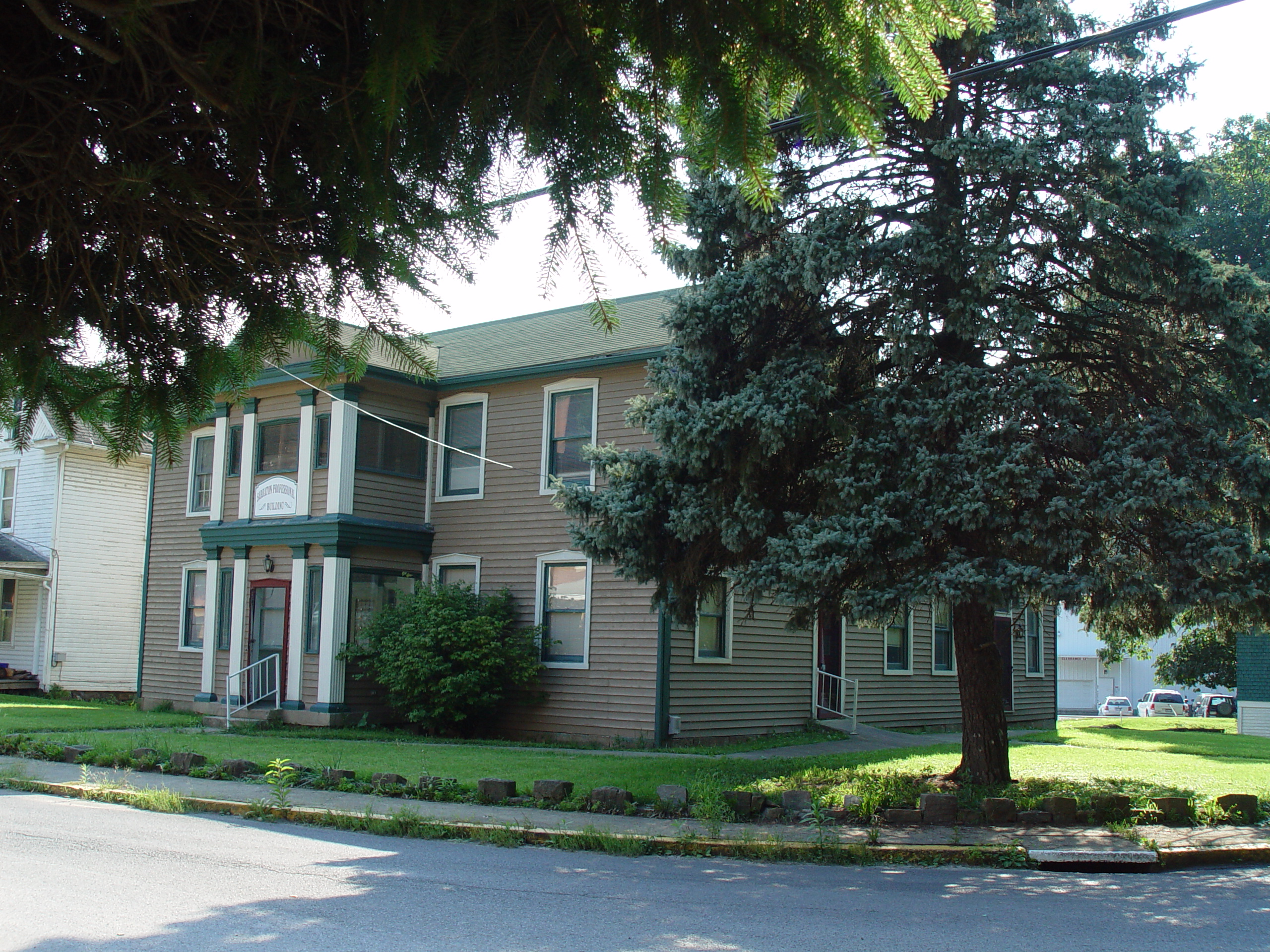 Front view of the Harner Homestead taken by Linda Hughes Hiser in August 2007. Notice the two story front porch which was typical of "I" construction and one of the significant features which placed the house on the National Register of Historic Places.